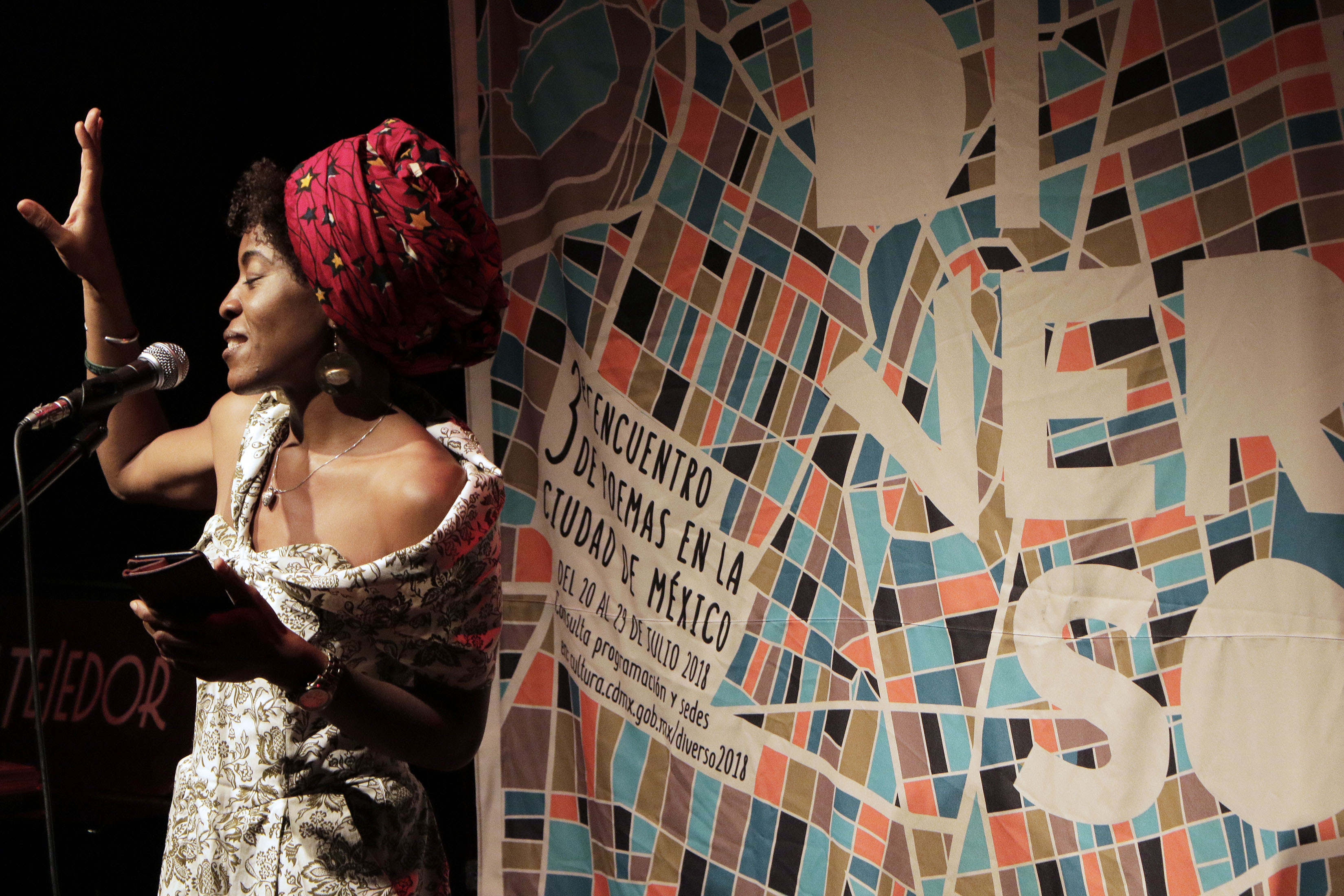 Uchechi Kalu (Nigeria-US) on a poetry reading in Mexico City, Monday, 23 July, 2018. Picture by Tania Victoria / Secretaria de Cultura CDMX.